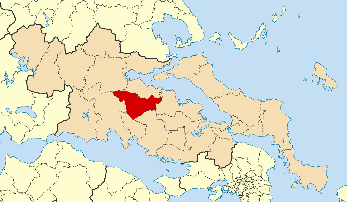 Locator map for Amfiklia-Elatia municipality in Greek region Central Greece (2011)